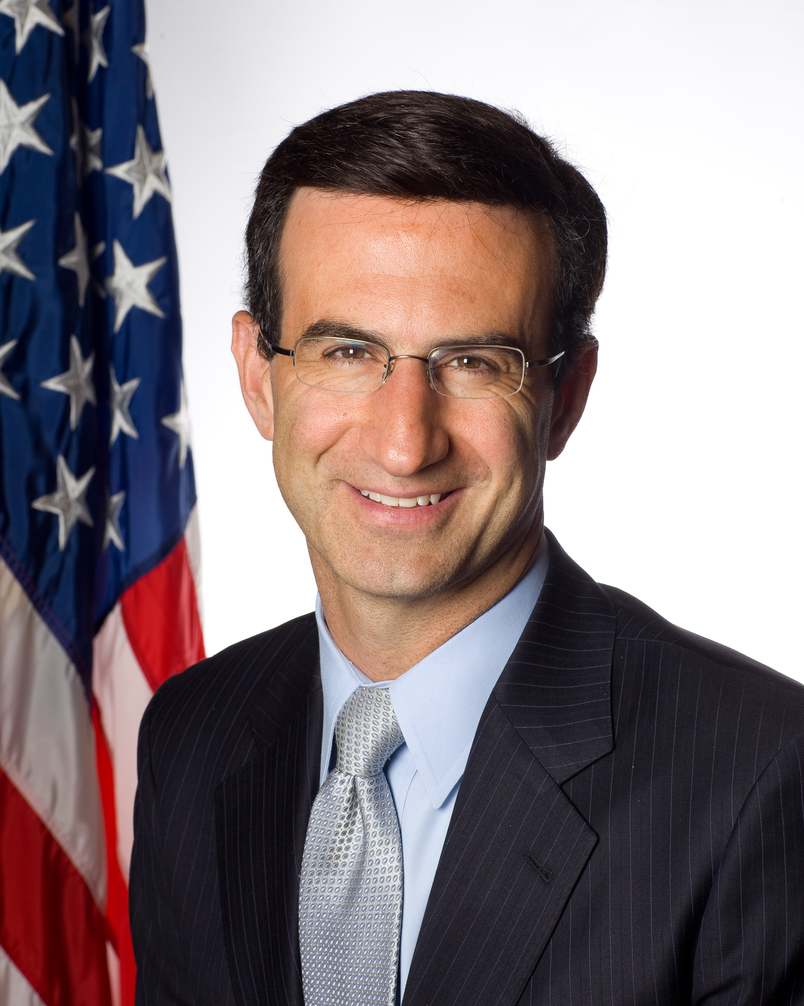 Official portrait of Peter R. Orszag, Director of the Office of Management and Budget.